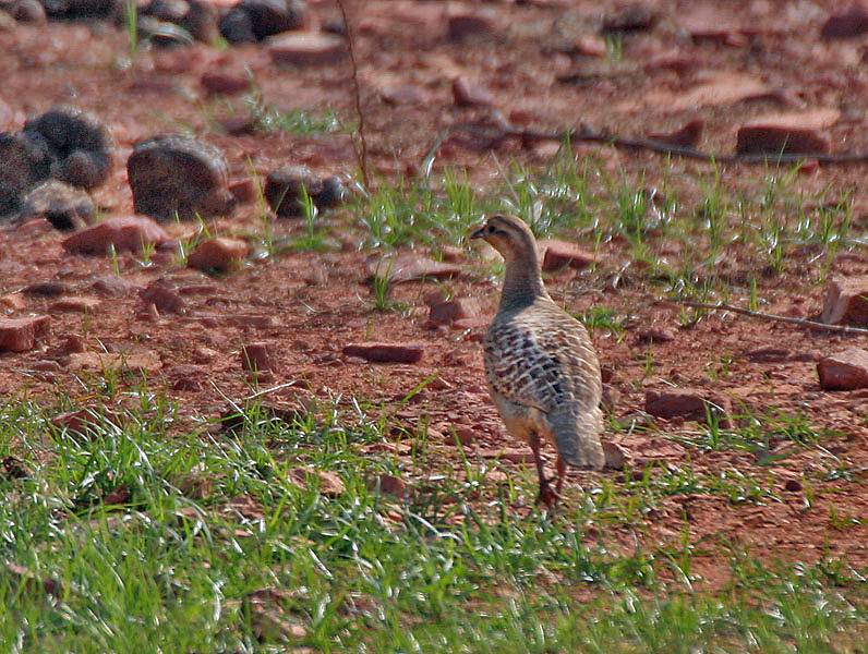 Grey Francolin (Francolinus pondicerianus) at Keoladeo National Park, Rajasthan, India.